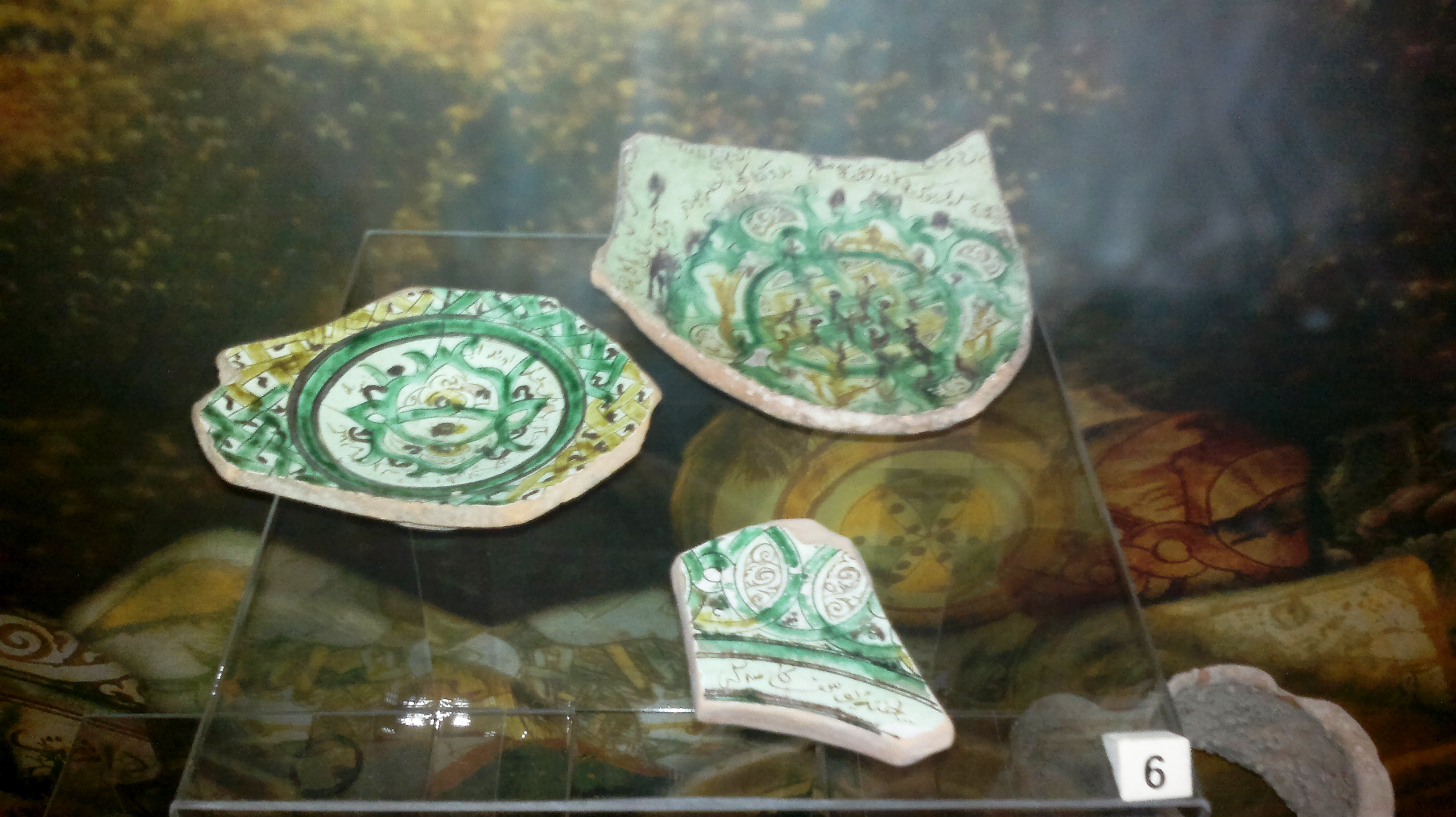 Findings from Bandovan. Middle ages. Description on one of them says "Made by Yusif Kaseki"